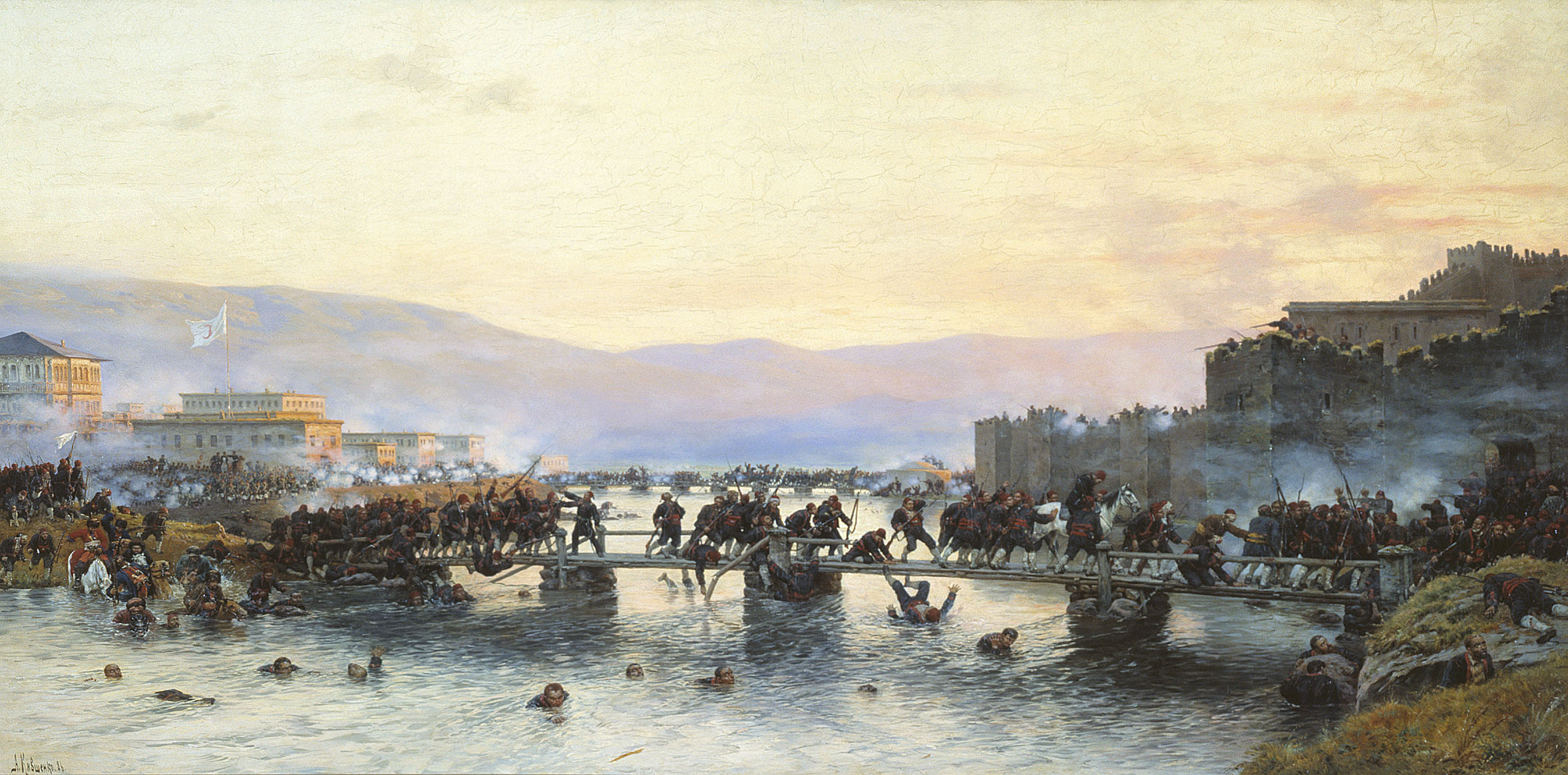 The storming of the Ardahan fortress by the Russians on May 5th 1877